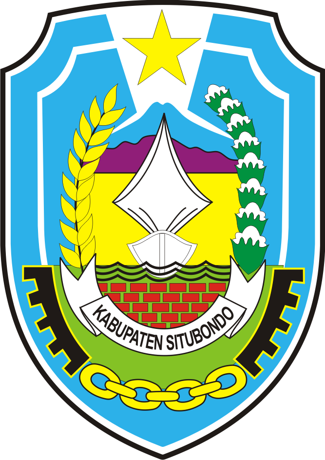 Seal of Situbondo Regency